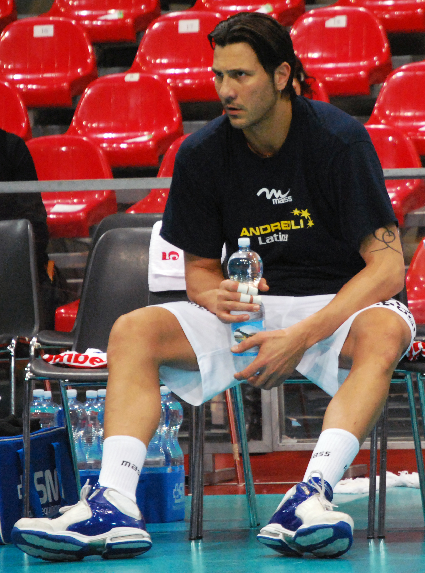 Foto che ho scattato al Palabanca di Piacenza in occasione della partita Copra-Latina